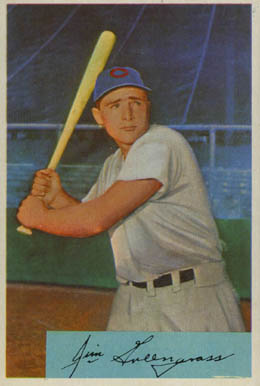 1954 Bowman baseball card of Jim Greengrass of the Cincinnati Reds #28. PD-not-renewed.